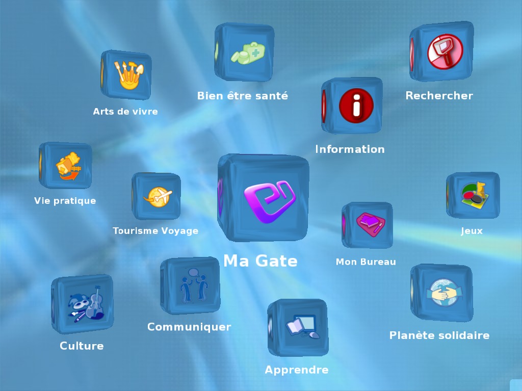 Screenshot de l'interface Easy de l'EasyOS